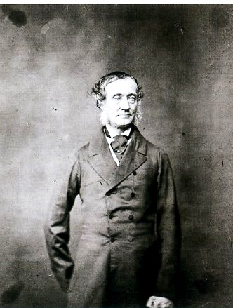 Sir Rutherford Alcock (1809-97)